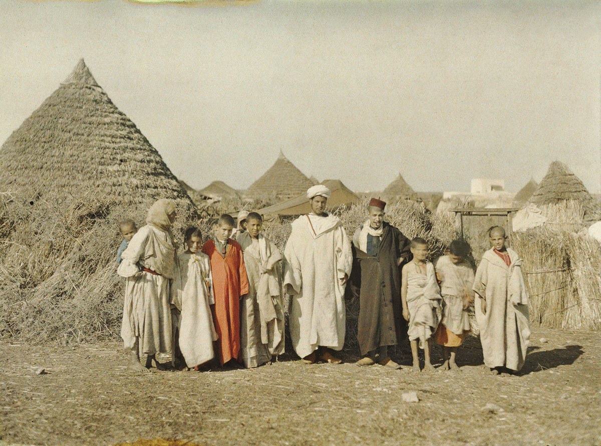 Autochrome from Albert Kahn's Archives de la planète